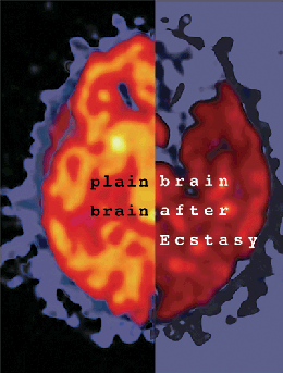 Central image of campaign "Plain Brain/Brain After Ecstasy image"